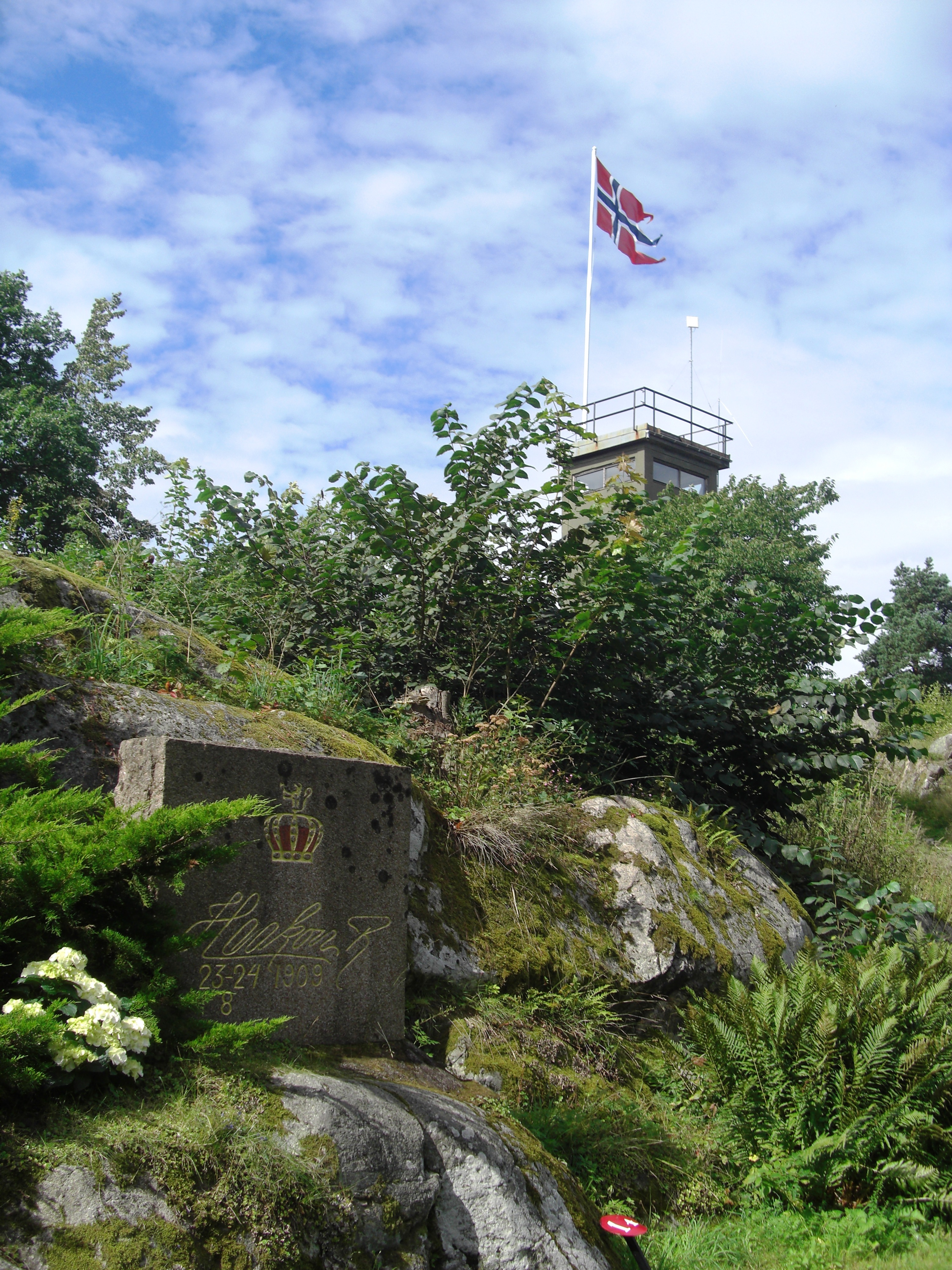 Memorial at Oscarsborg